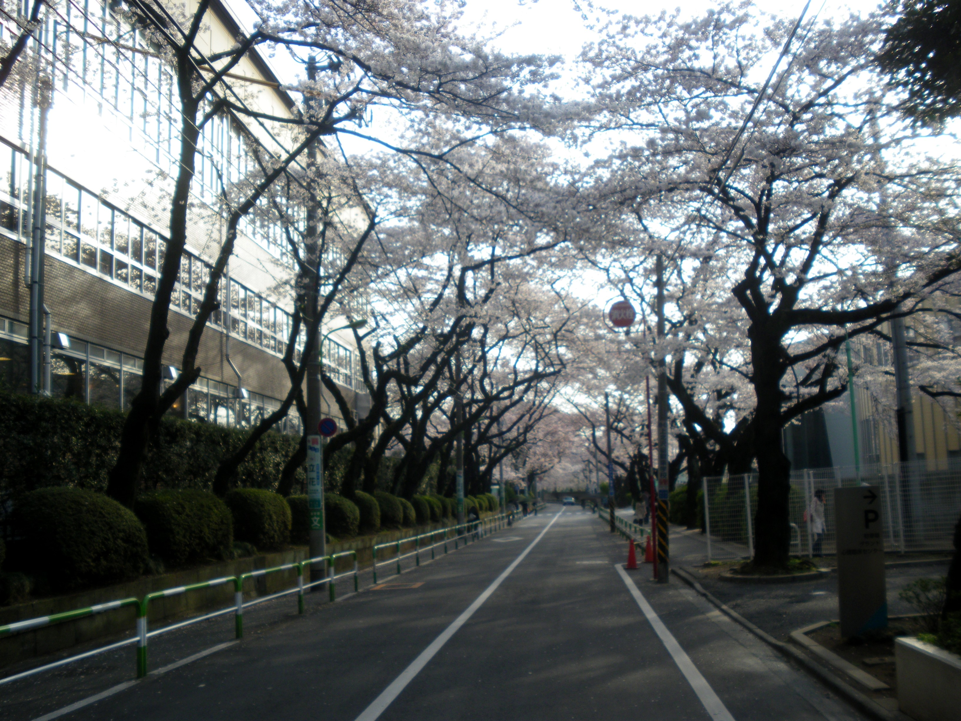 row of cherry blossom trees at Nihon University college of humanities and sciences(sakurajosui,Setagaya,Tokyo)